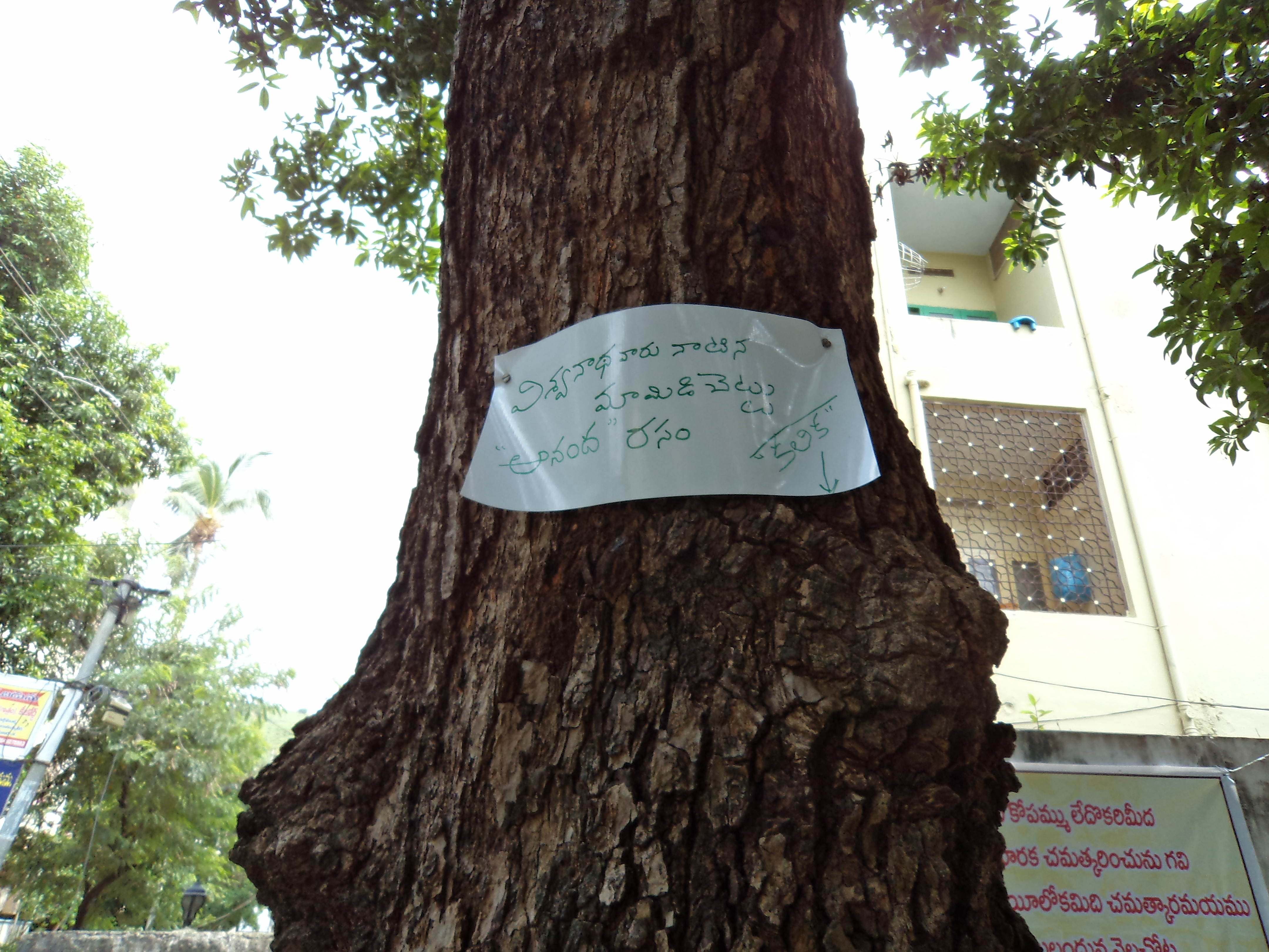 Viswanatha atyanarayana, a poet from Andhra Pradesh, Jnan pith award(the highest literature award in India) winner, his memories, his home and his posessions.